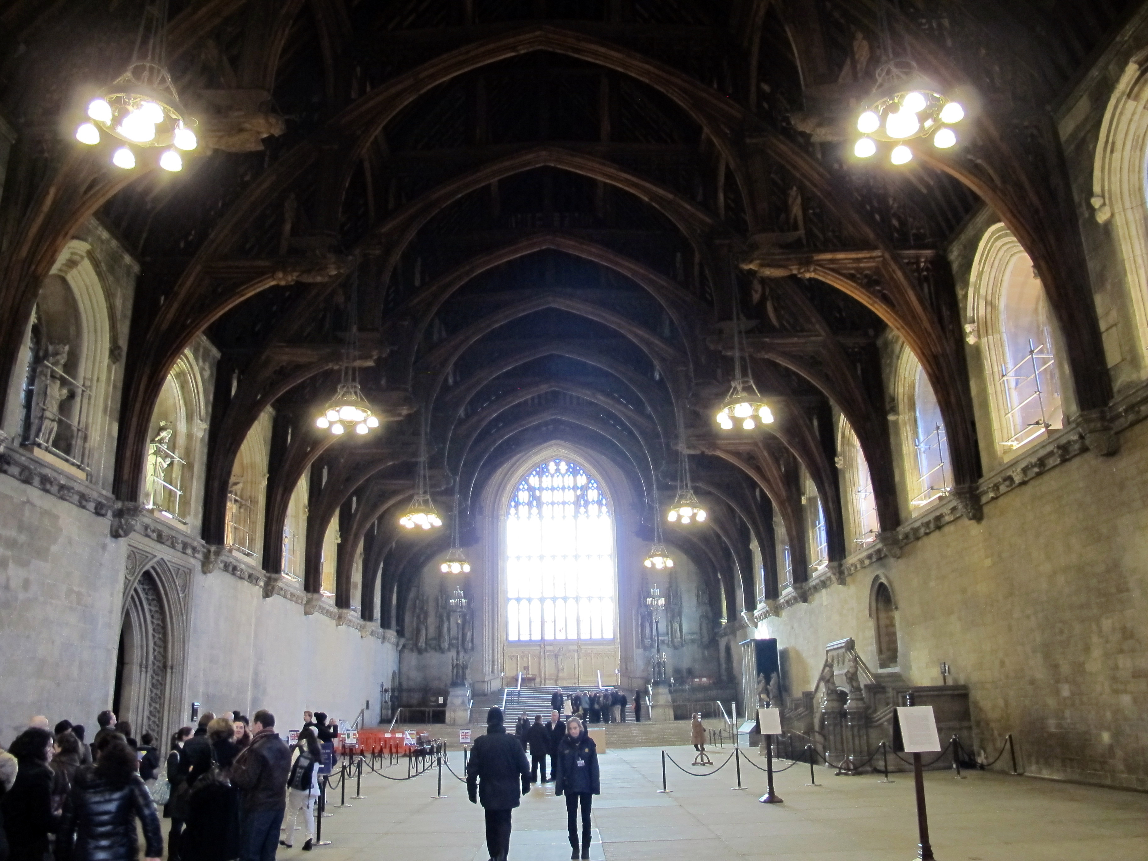 Westminster Hall